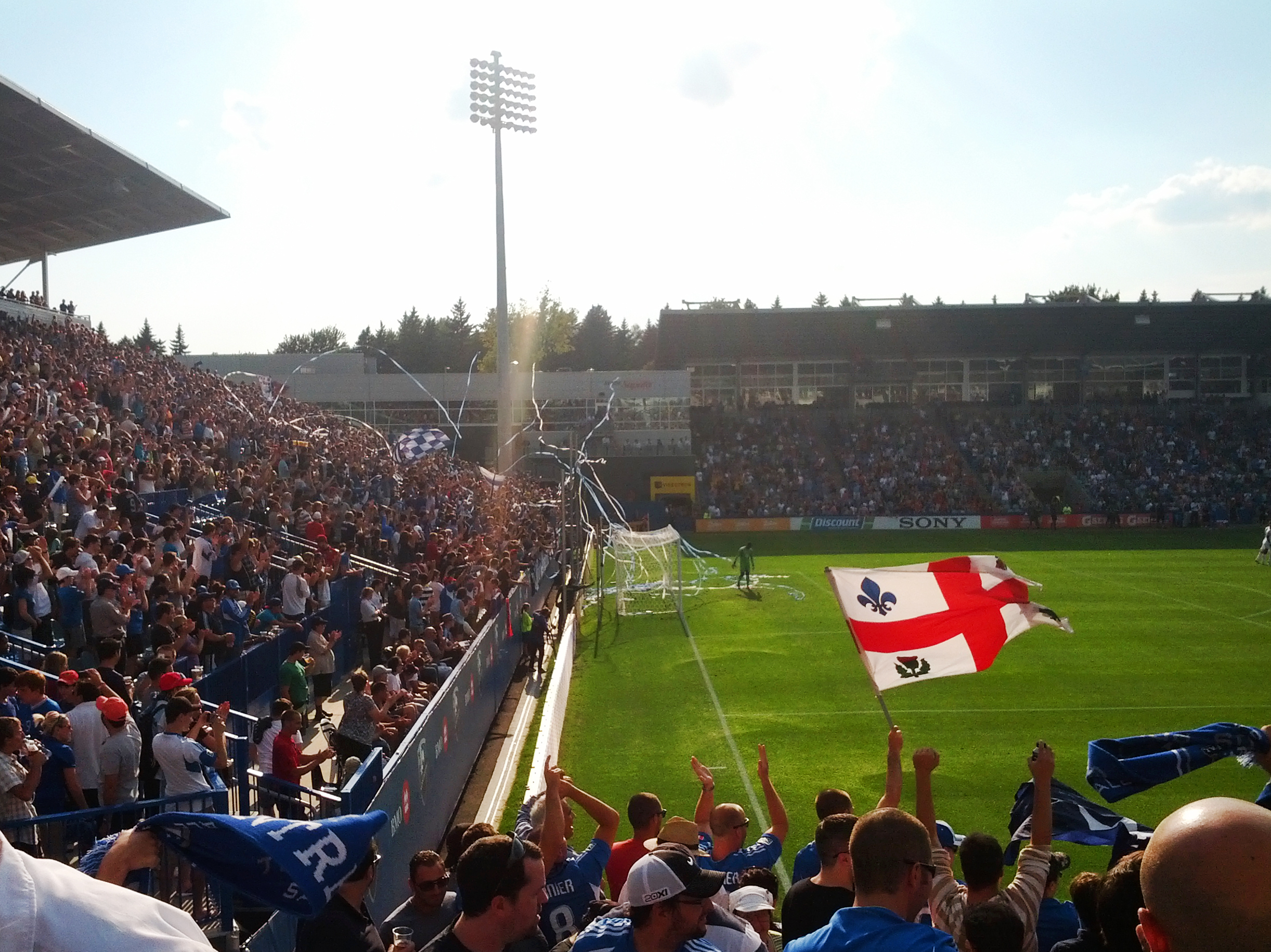 Montreal Impact supporters waving flags and celebrating a goal against visiting D.C. United in a 25 August 2012 Major League Soccer game at Saputo Stadiuml. Pictured: fan waving a Montreal city flag and D.C. United goalkeeper Bill Hamid.